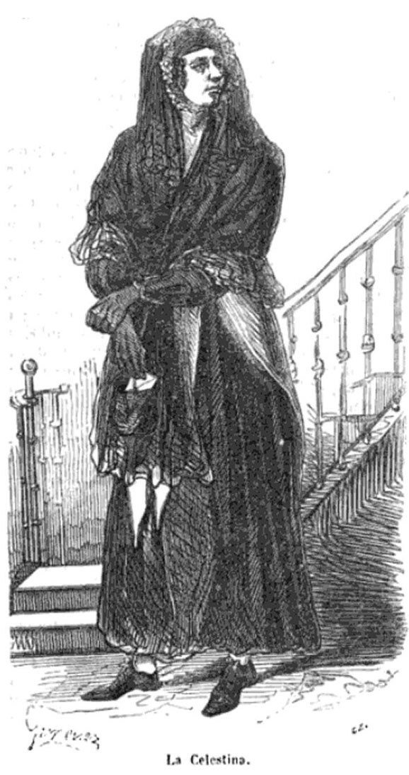 "La Celestina", illustration from the book Los Españoles pintados por sí mismos.